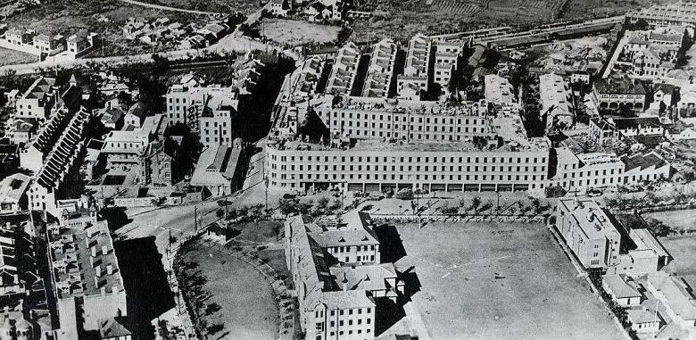 The headquarters of Shanghai Special Naval Landing Force (上海海軍特別陸戦隊 Shanhai Kaigun Tokubetsu Rikusentai).